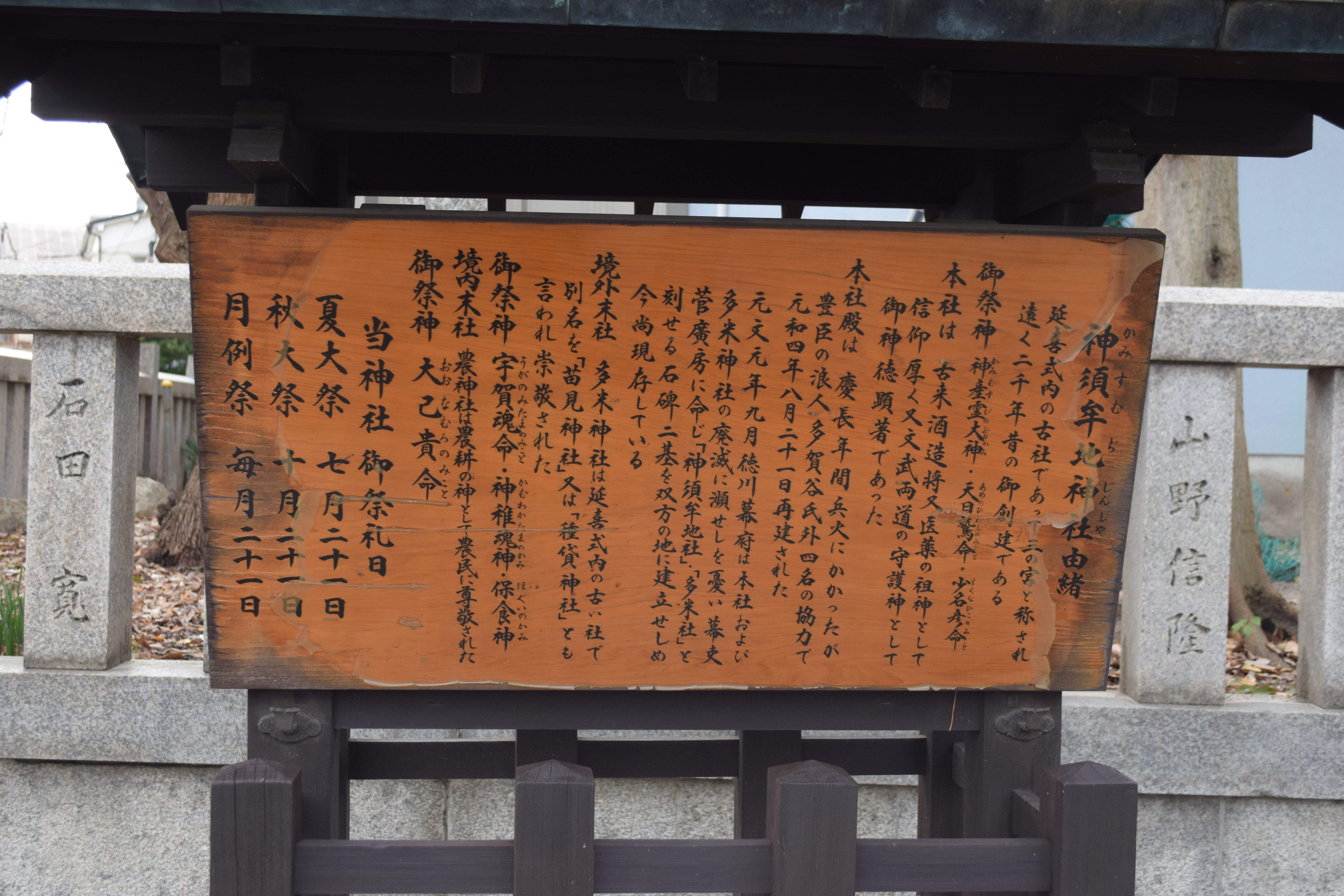 A history signboard called Yuisho-gaki(由緒書) of Kamisumuji-jinja(神須牟地神社) (Shinto Shrine). Sumiyoshi ward, Osaka, Japan.